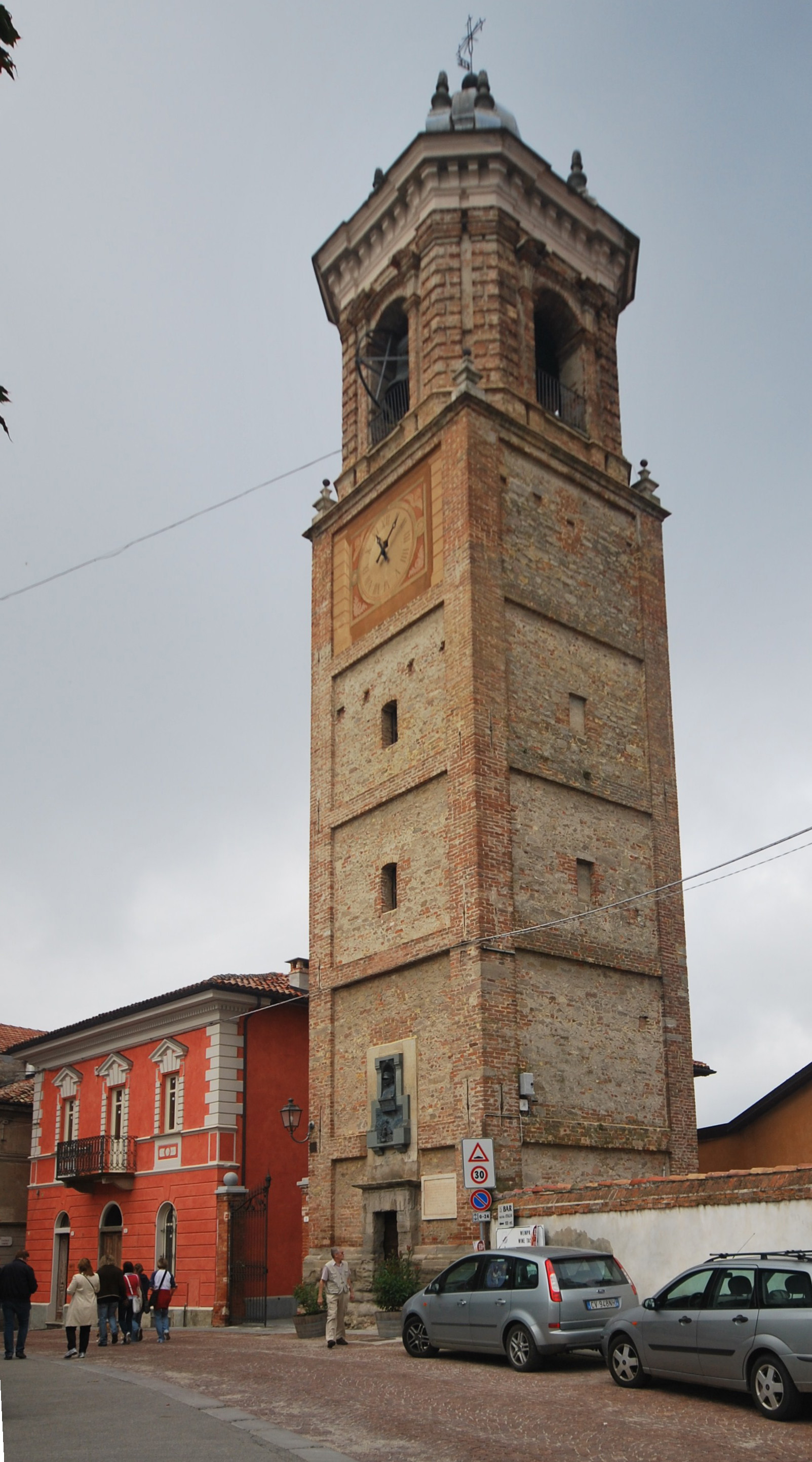 Torre Campanaria Belltower, built on the place the castle that was destroyed in the 1540s, La Morra, Piemonte